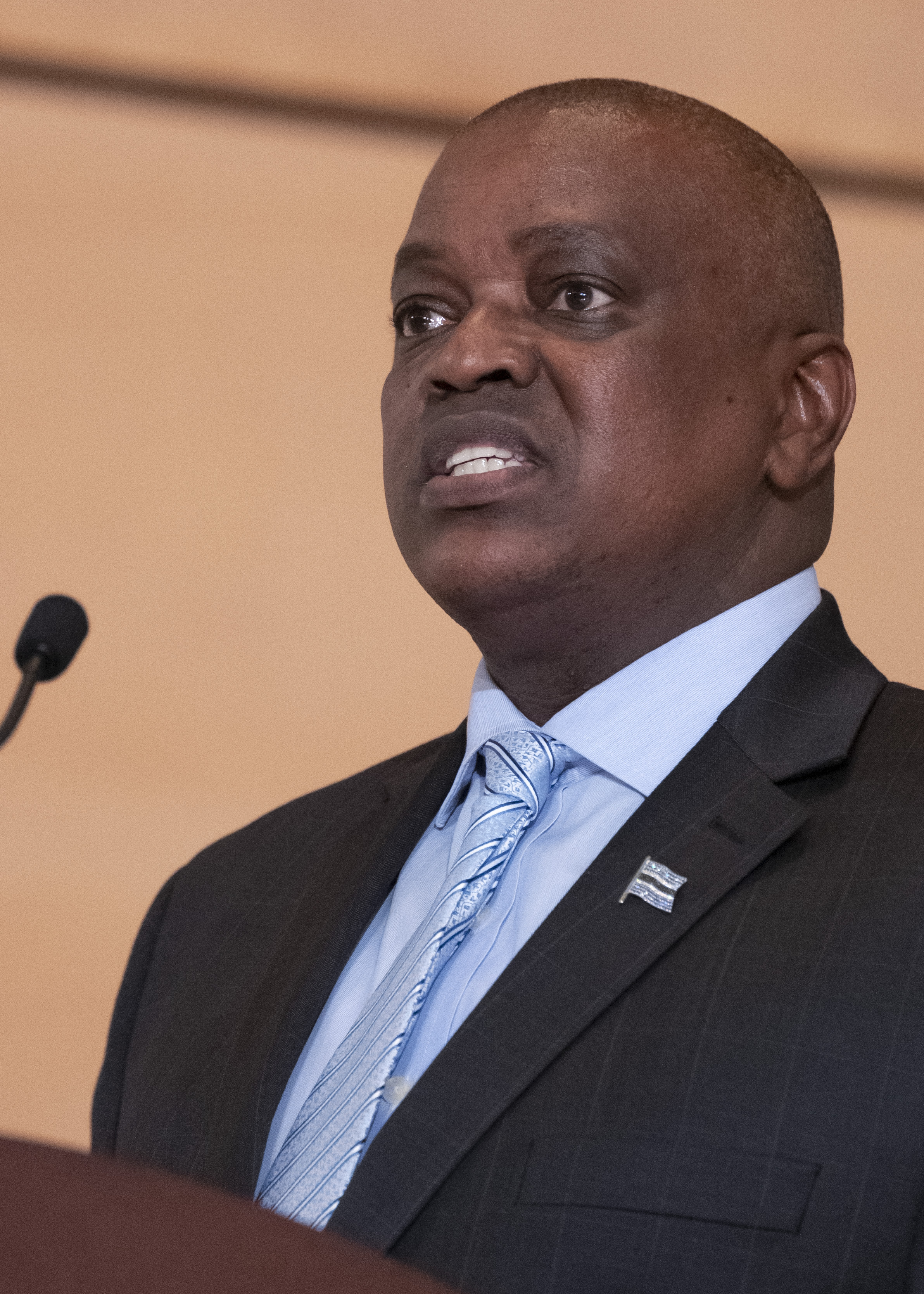 Mokgweetsi E.K. Masisi, President of the Republic of Botswana at a GLOBAL LEADERS INVESTMENT SUMMIT II during Word Investment Forum 2018. 24 octobre 2018. UNCTAD Photo/Jean Marc Ferré